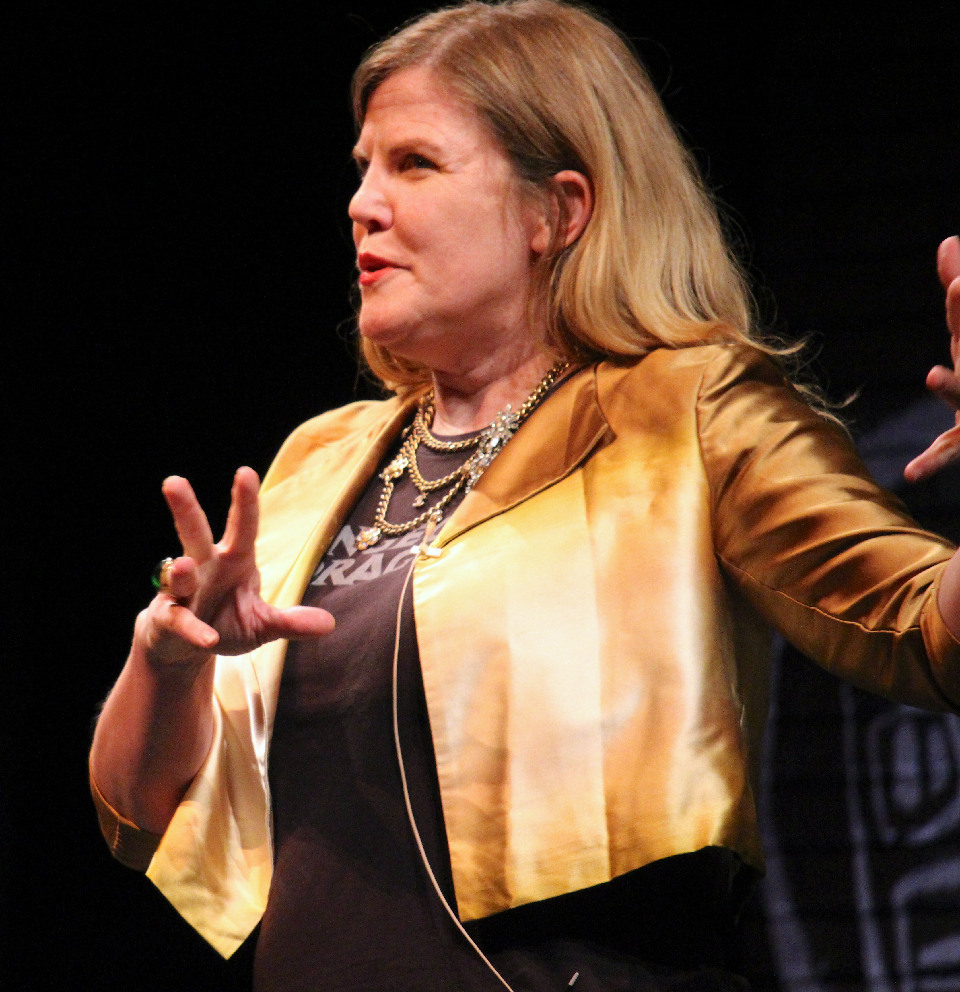 Chelsea Cain speaking at the Portland Creative Conference 2015, in Portland, Oregon